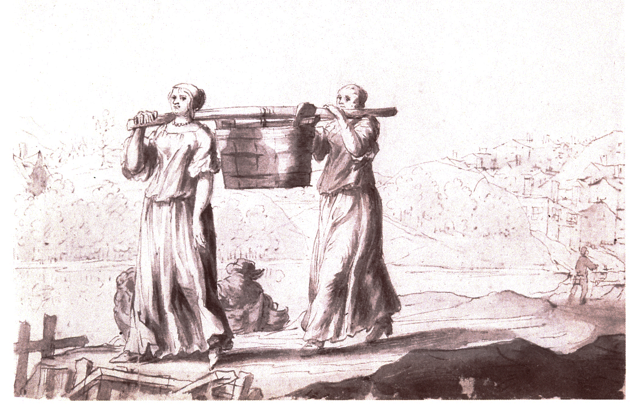 Women collecting latrine. Stockholm. 17th Century